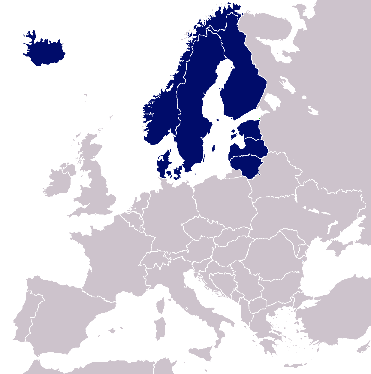 Members of NIB: Nordic Investment Bank, as of 2005, according to